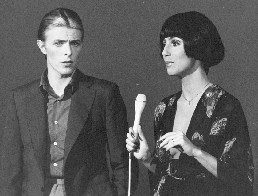 Photo of David Bowie and Cher from her solo variety television program Cher.